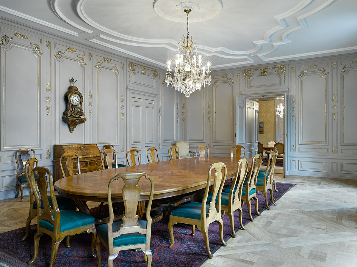 Dokumentation nach Bauvollendung, Raum O102